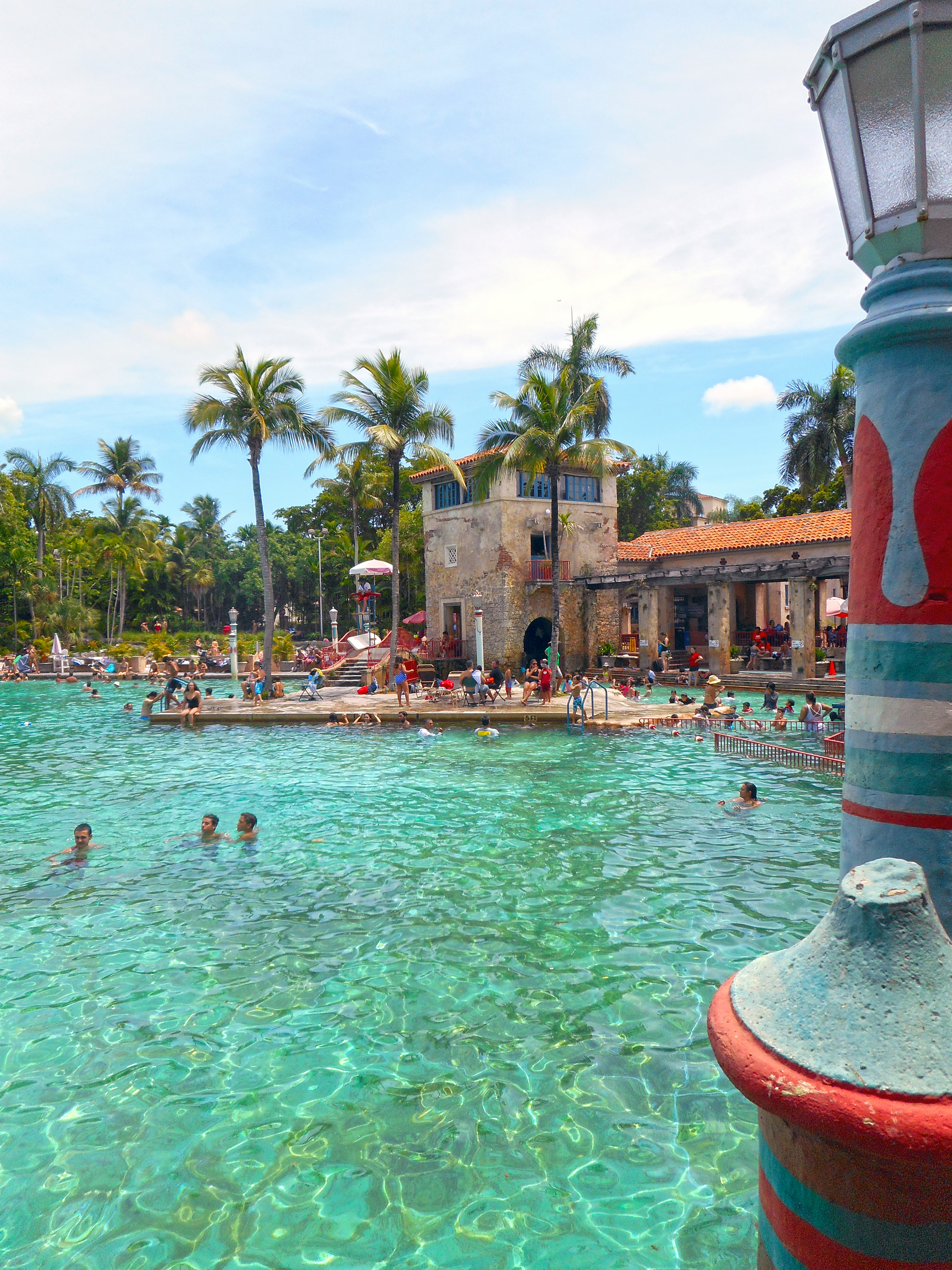 Mooring buoys, island and pool